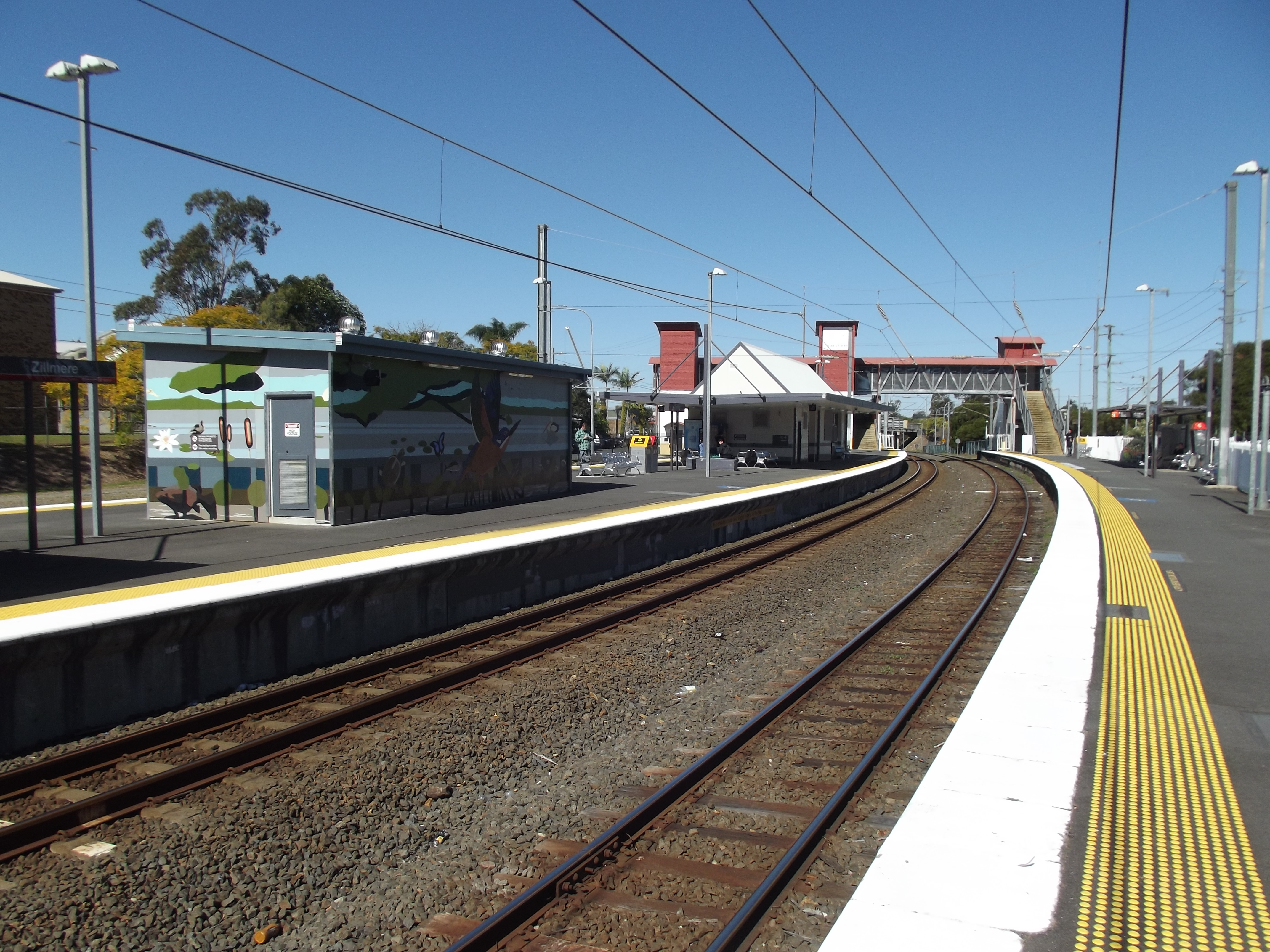 Zillmere station, on the Caboolture line.